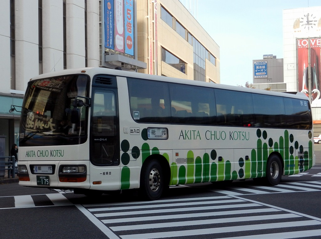 Akita Chuo Kotsu Isuzu Gala (KL-LV774R2)highwaybus "Akita-Noshiro"